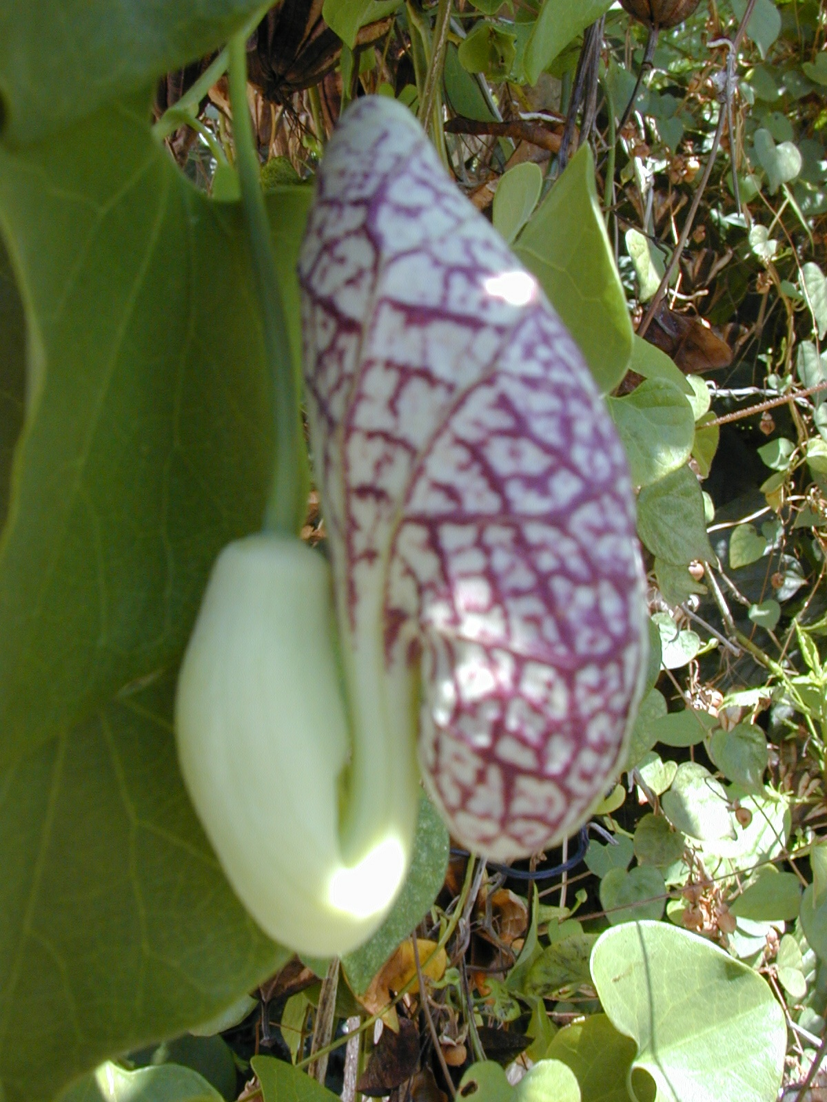 Aristolochia littoralis (flower). Location: Maui, Kahului